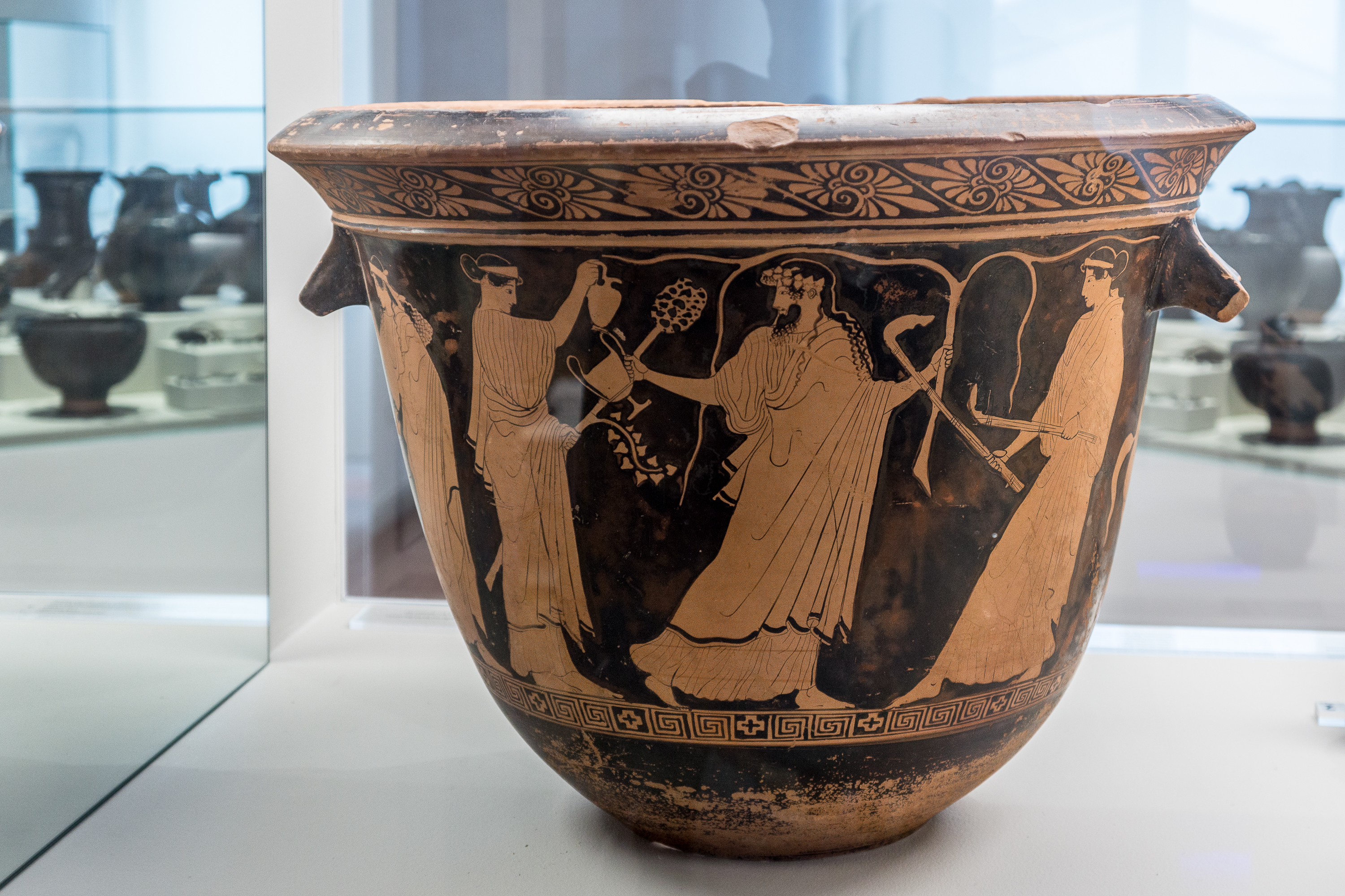 This is a photo of a monument which is part of cultural heritage of Italy.